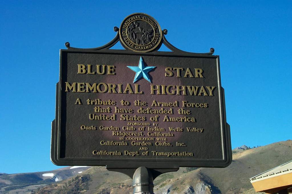 Road sign along U.S. Highway 395 just north of Mono Lake. Photo created on 2000-09-03 by Yours Truly.